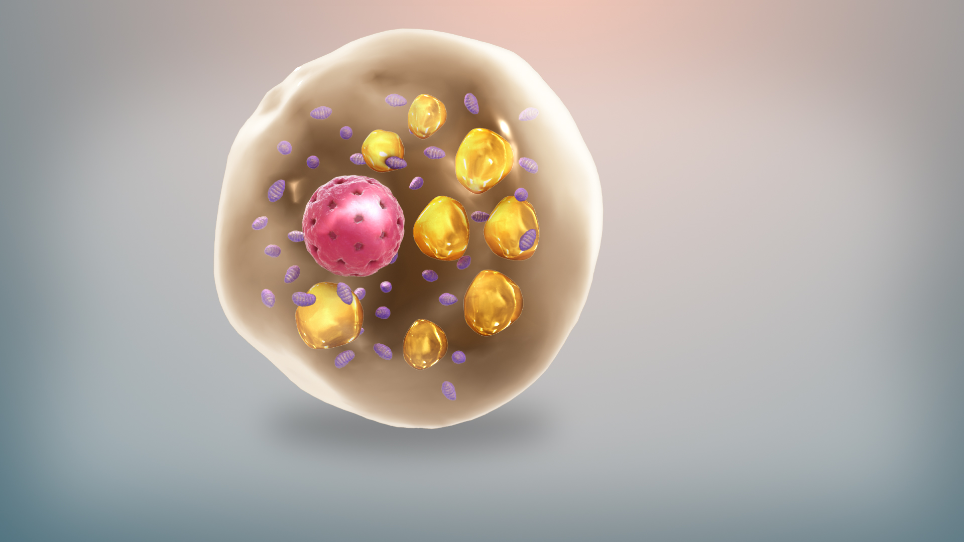 Brown fat cell rich in mitochondria and having lipid droplets scattered throughout.